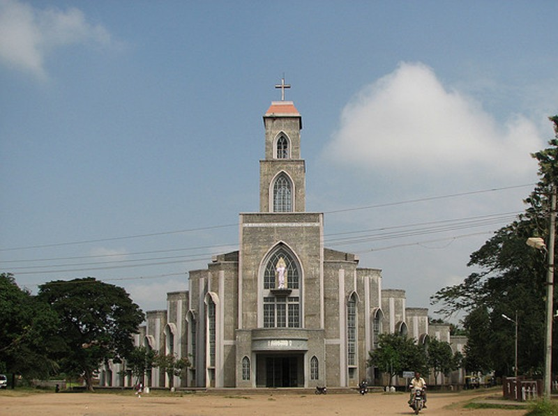 Biggest Church in South Asia. Located in the city of Shimoga, Karnataka, INDIA